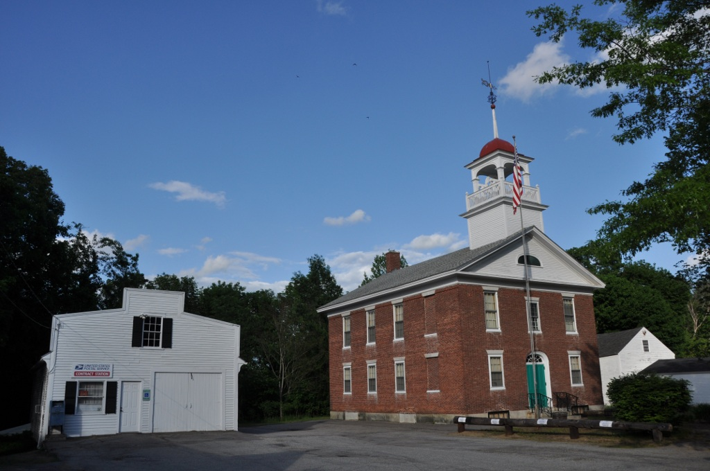 The Boscawen Academy and Much-I-Do-Hose House in Boscawen, New Hampshire; the academy building houses the Boscawen Historical Society.